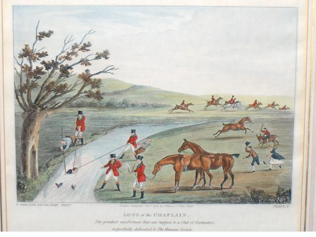 A coloured engraving of Charles Loraine Smith fox hunt parody - Loss of the Chaplain - Braunestone hunt - 1820s